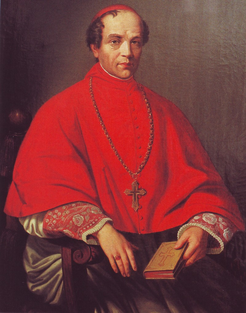 Freiherr Melchior von Diepenbrock, prince-bishop of Breslau (1845-1853)